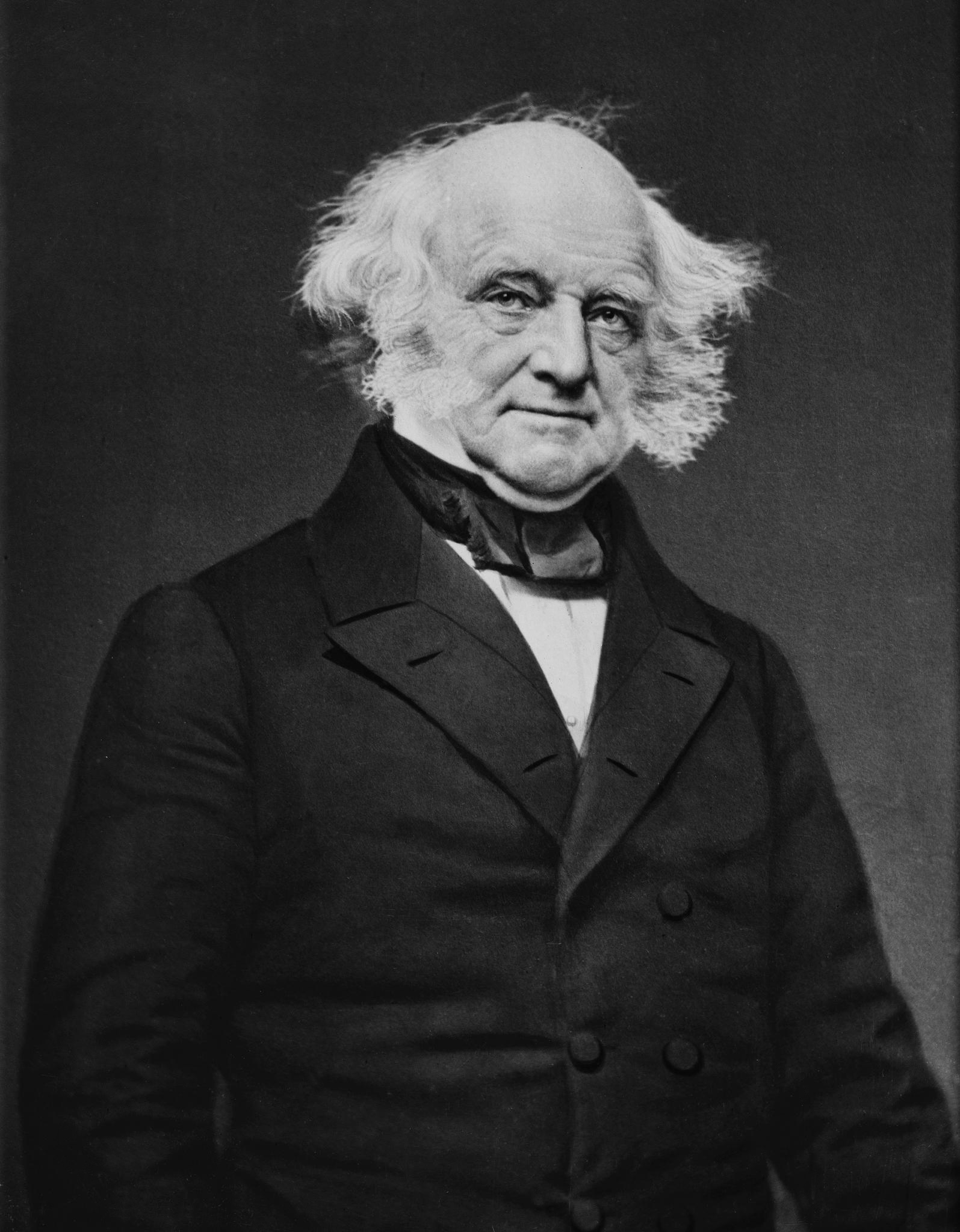 Martin Van Buren (December 5, 1782—July 24, 1862), the 8th President of the United States, 8th Vice President of the United States, 10th United States Secretary of State, and 9th Governor of New York